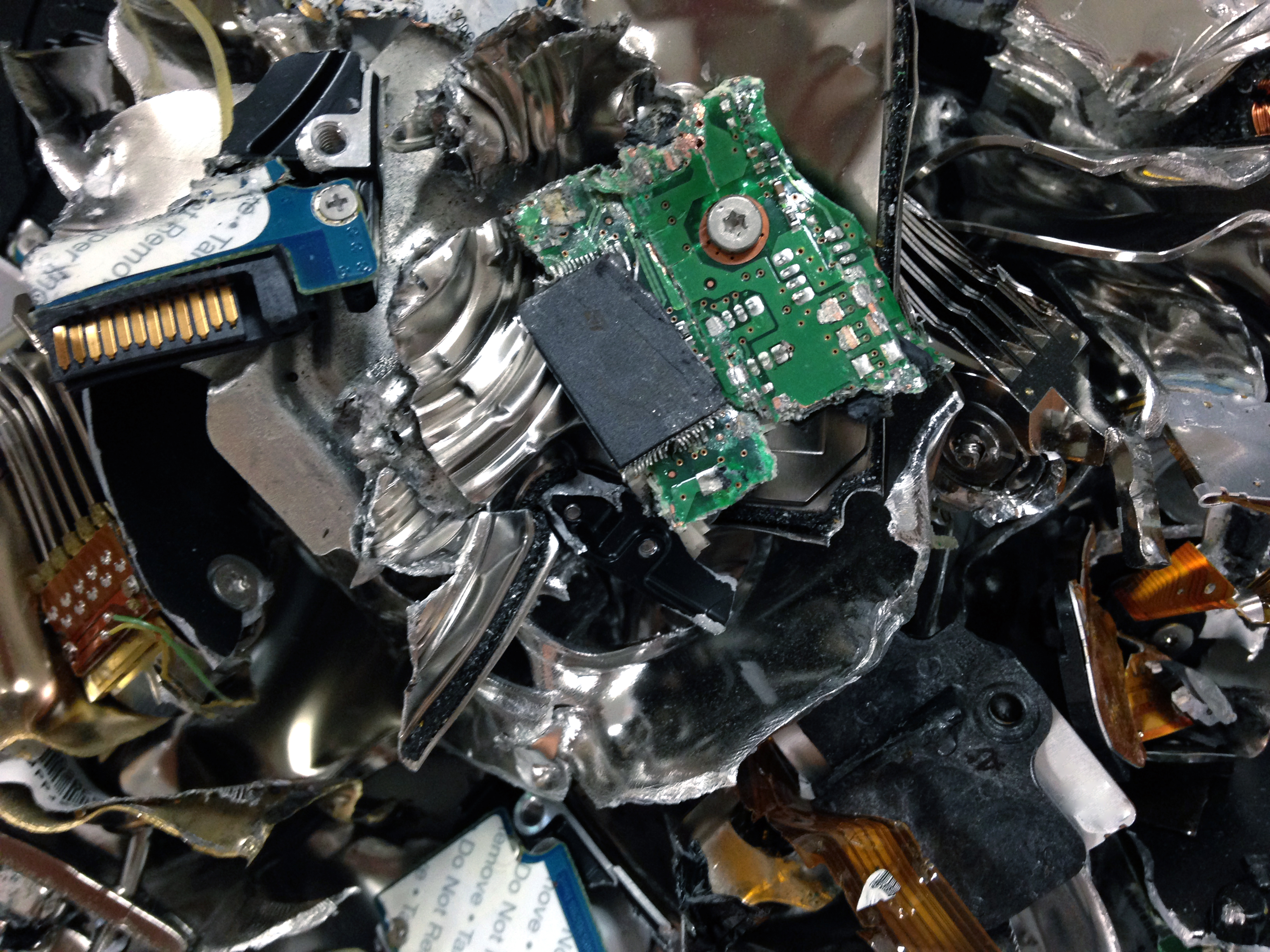 The pieces of a physically destroyed hard drive - a data destruction technique used render the data on the hard drive platters are no longer accessible.